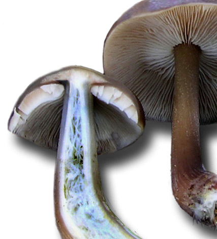 Collybia butyracea (or Butter Cap)